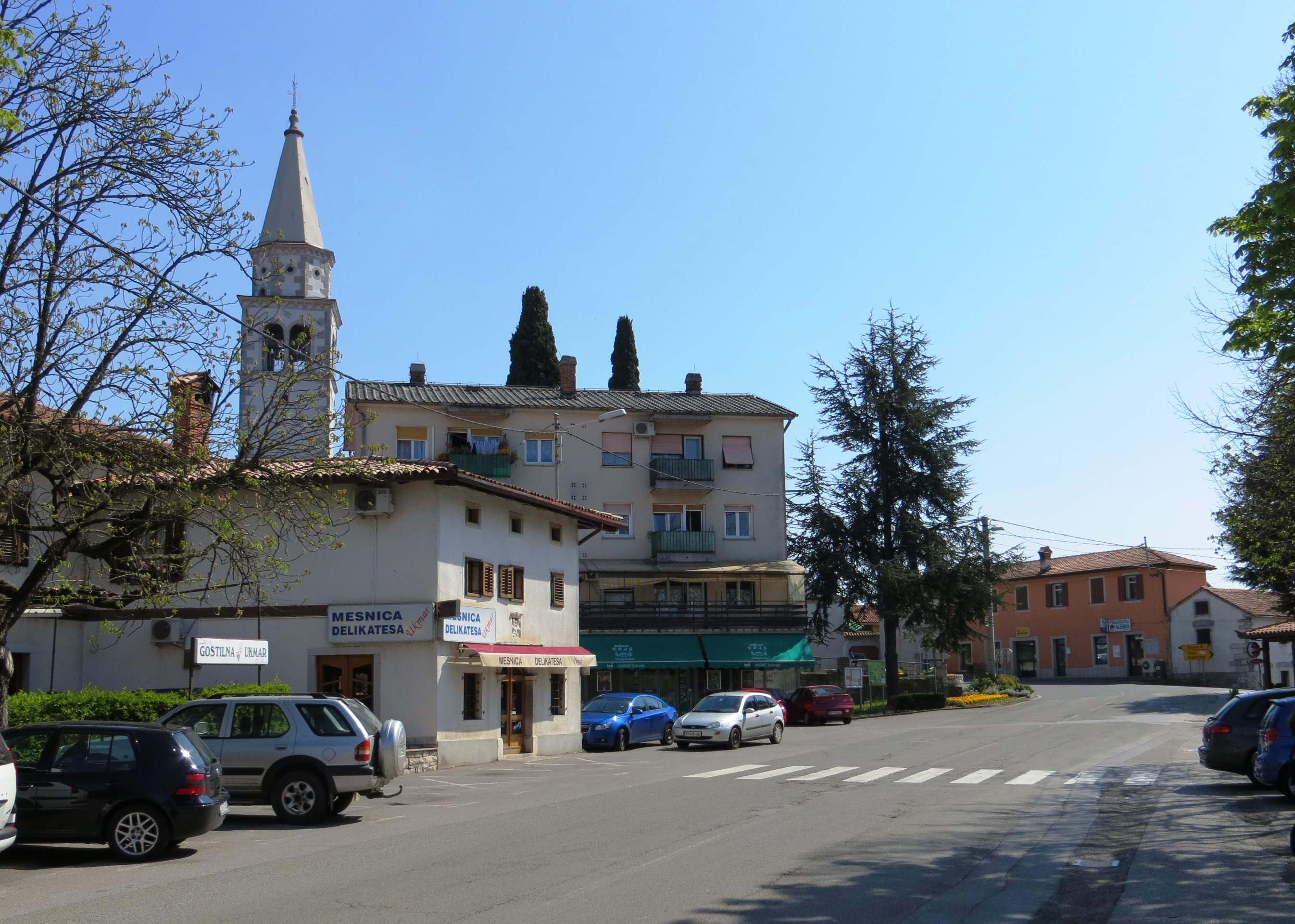 Central square in Dutovlje, Municipality of Sežana, Slovenia